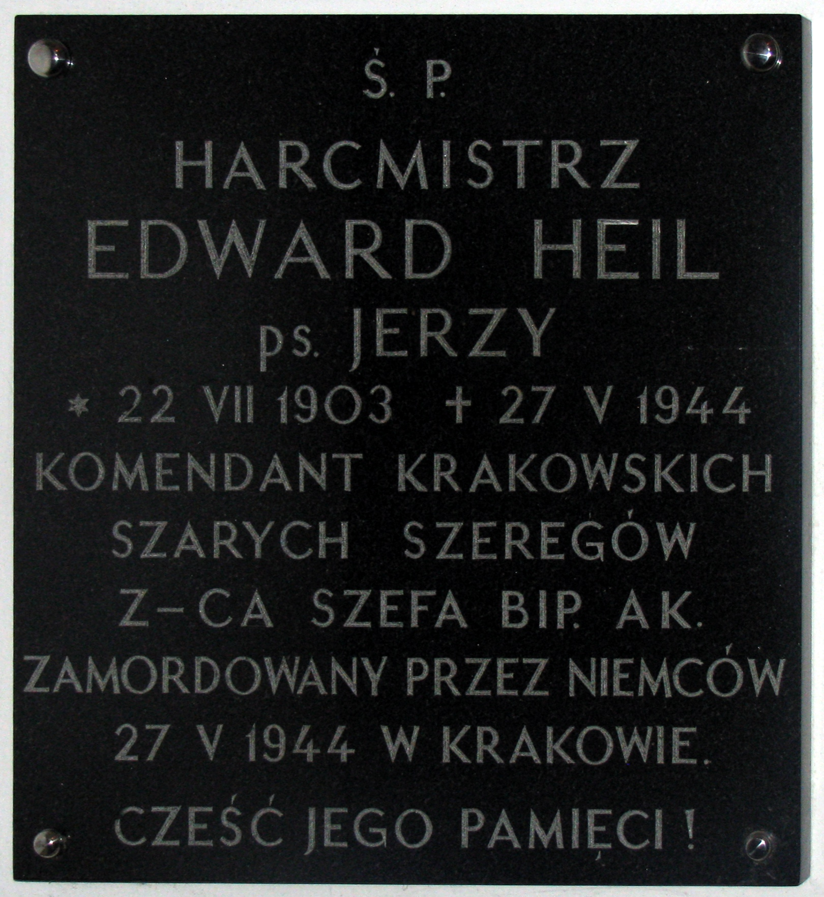 Plaque commemorating Edward Heil